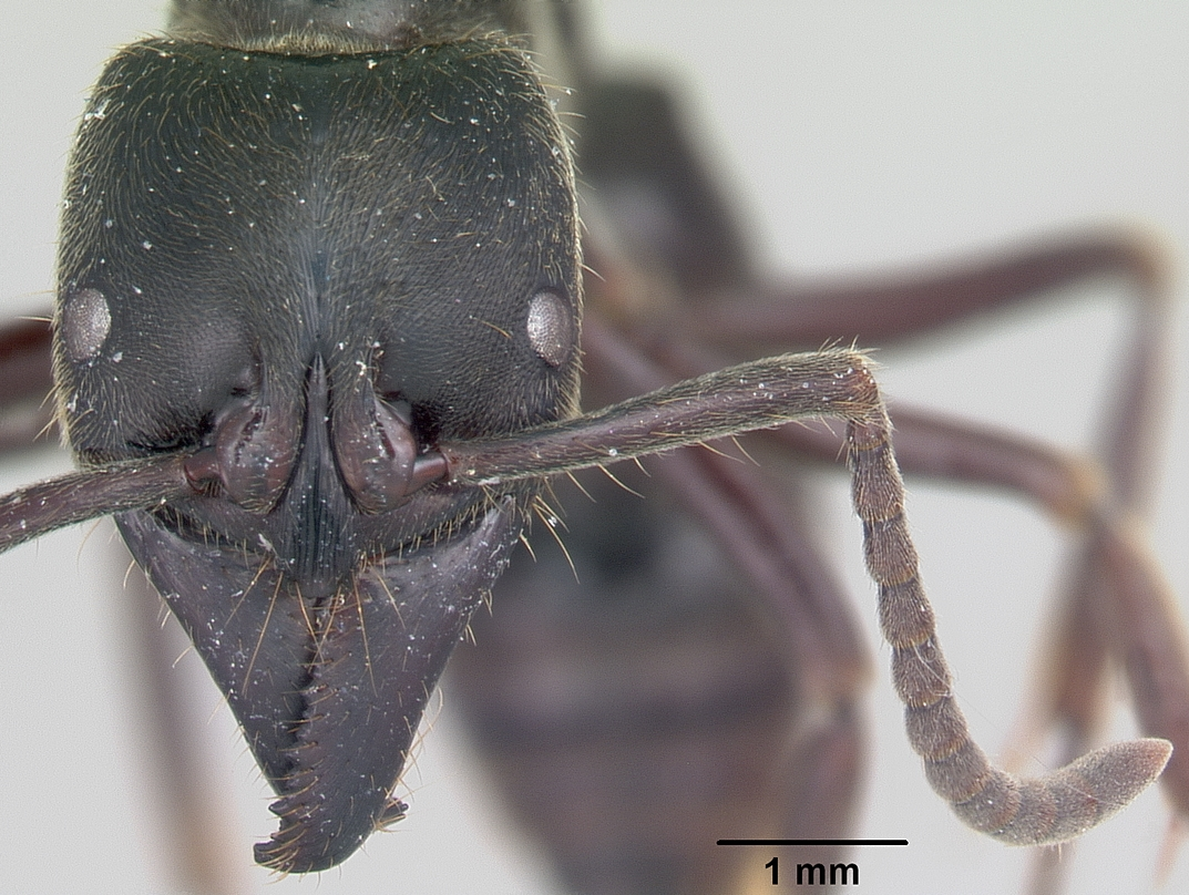 Head view of ant Pachycondyla tarsata specimen casent0003140.